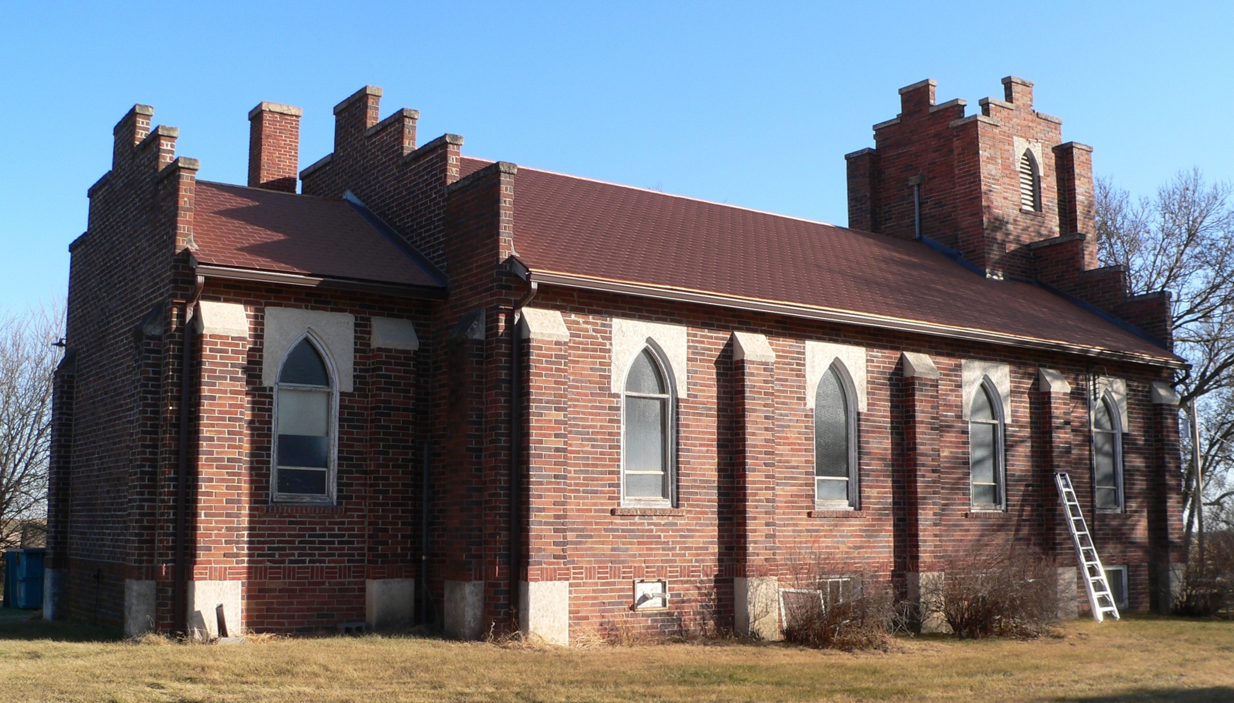 St. Peder's Dansk Evangelical Lutheran Kirke in Nysted, Howard County, Nebraska; seen from the west. The church was built in 1919; it is listed in the National Register of Historic Places.